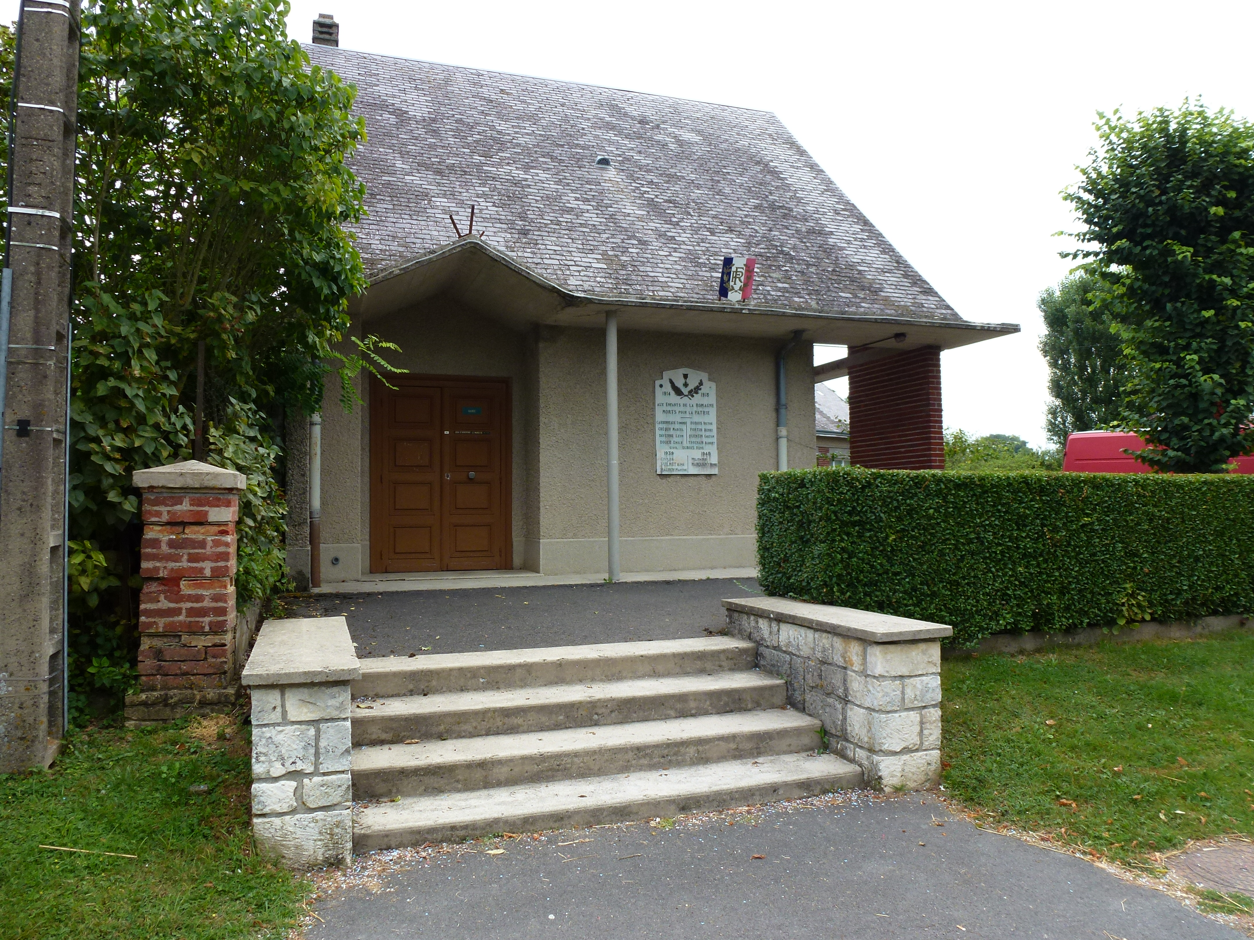 La Romagne (Ardennes) entrée de la mairie